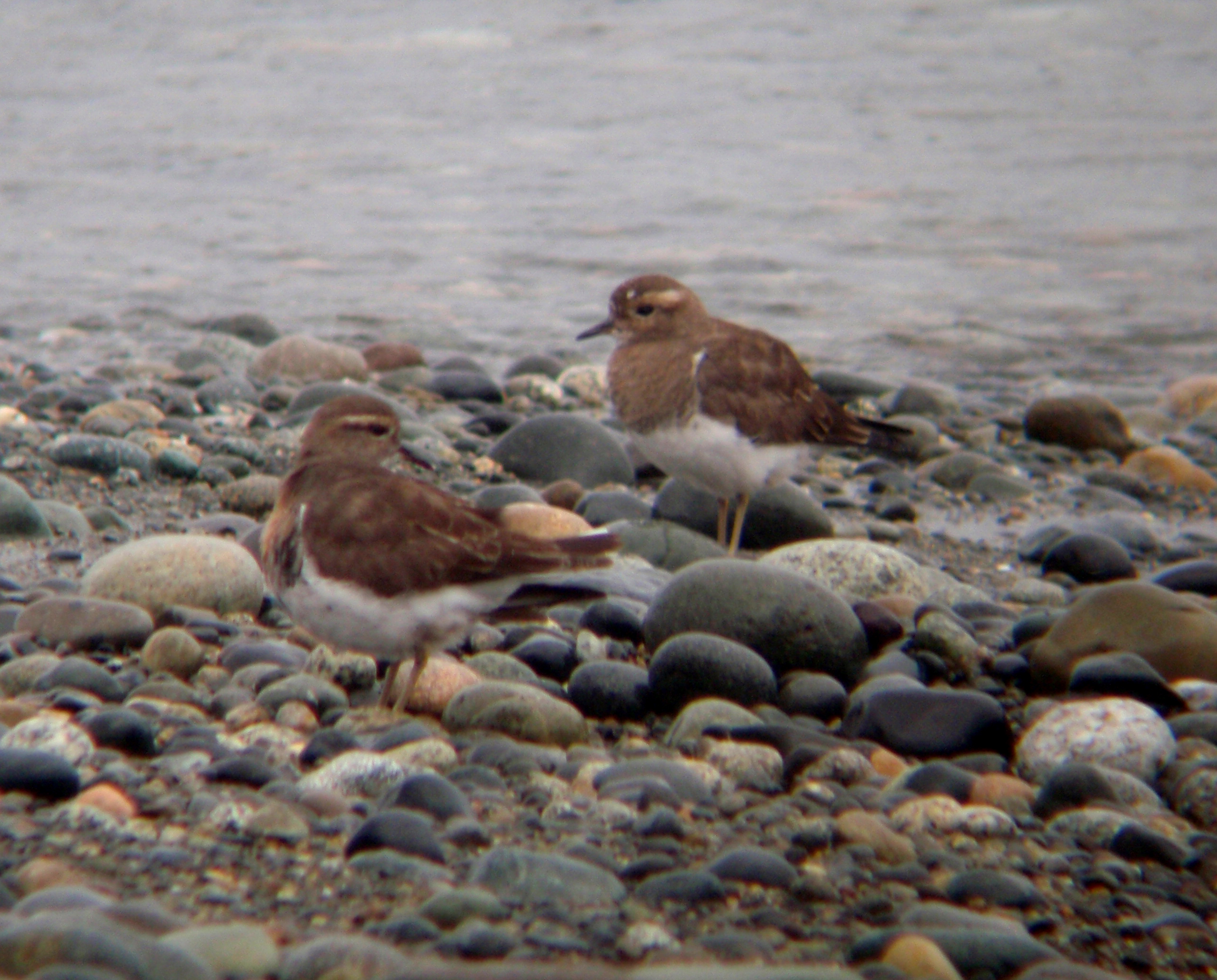 Rufous-chested Dotterel in non-breeding plumage near the Chucao strait in between Chiloe Island and mainland Chile.